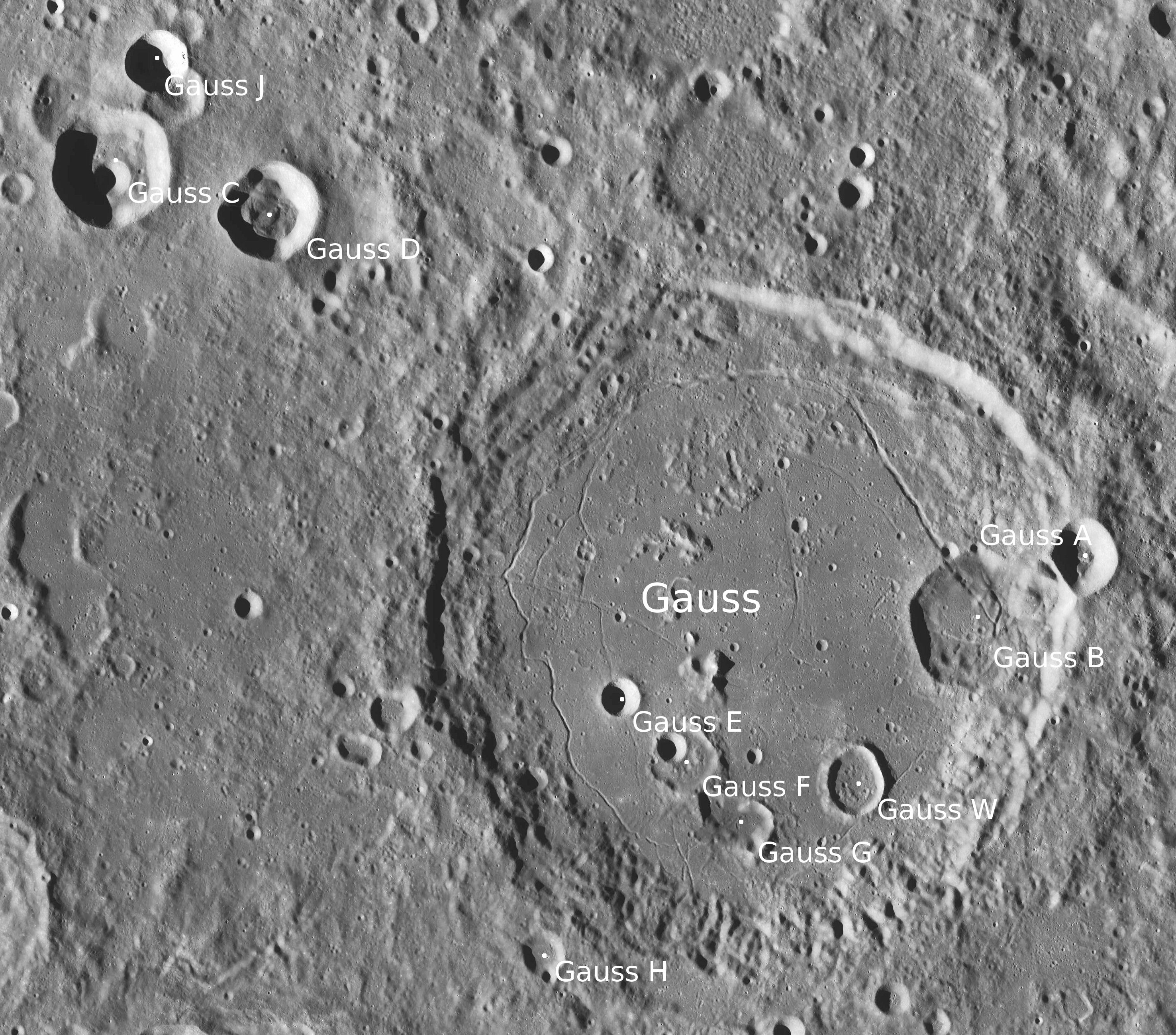 Crater Gauss (detail of LRO - WAC global moon mosaic; Mercator projection)